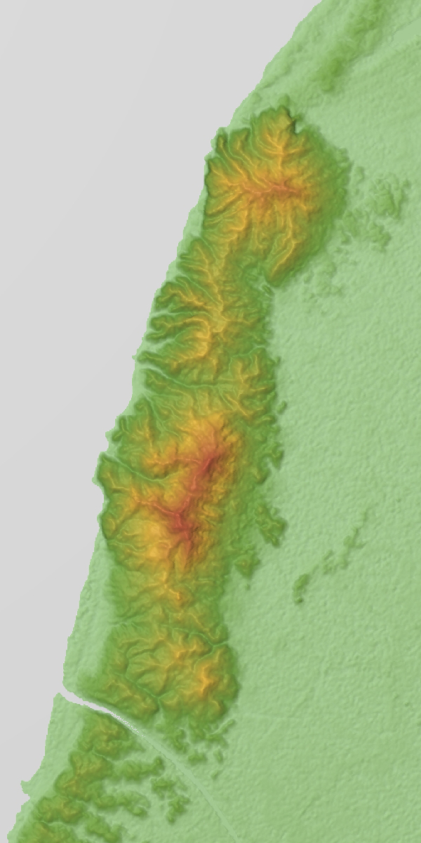 Yahiko Mountains in Niigata Prefecture, Honshu, Japan.